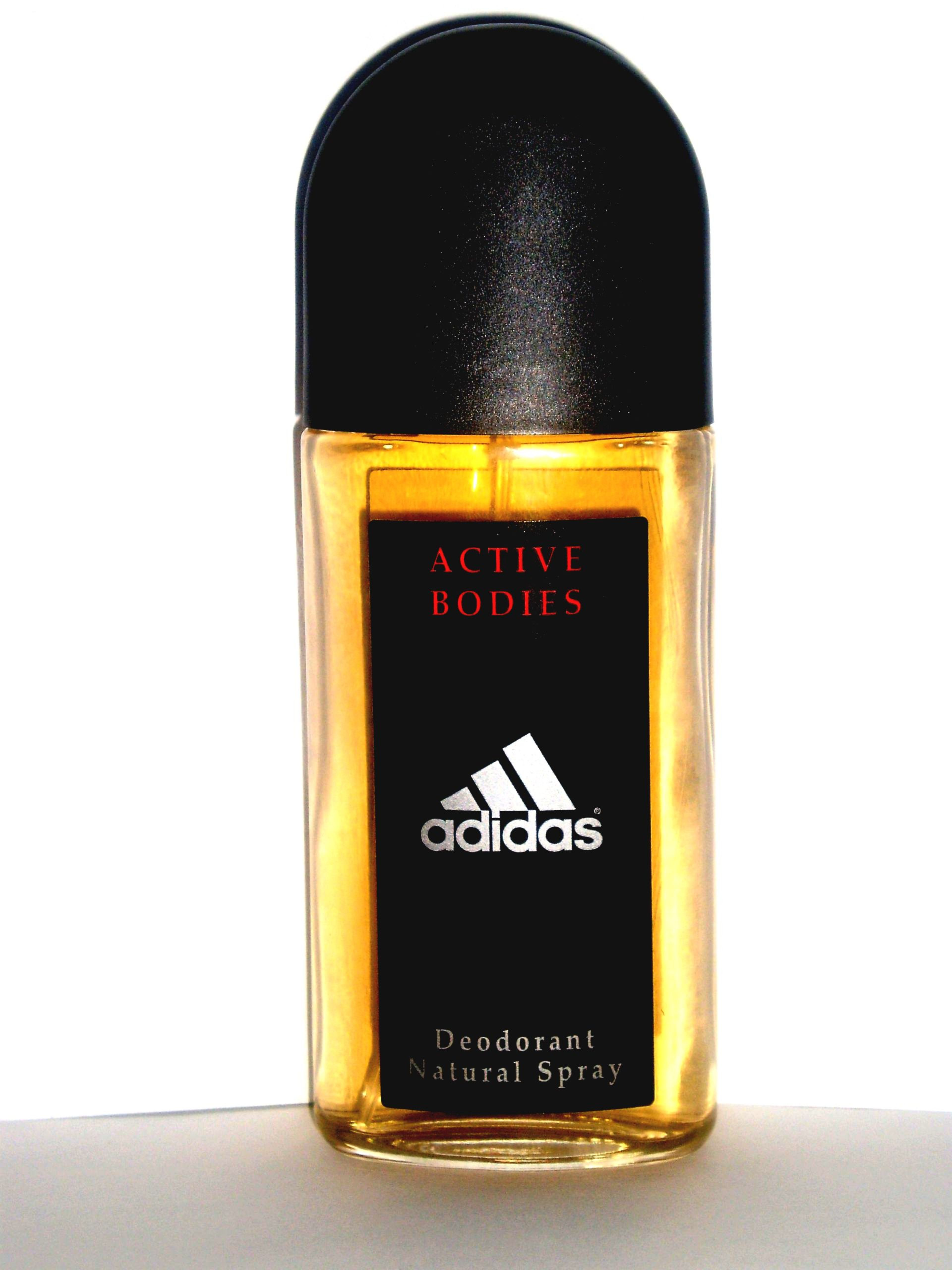 Adidas Active Bodies